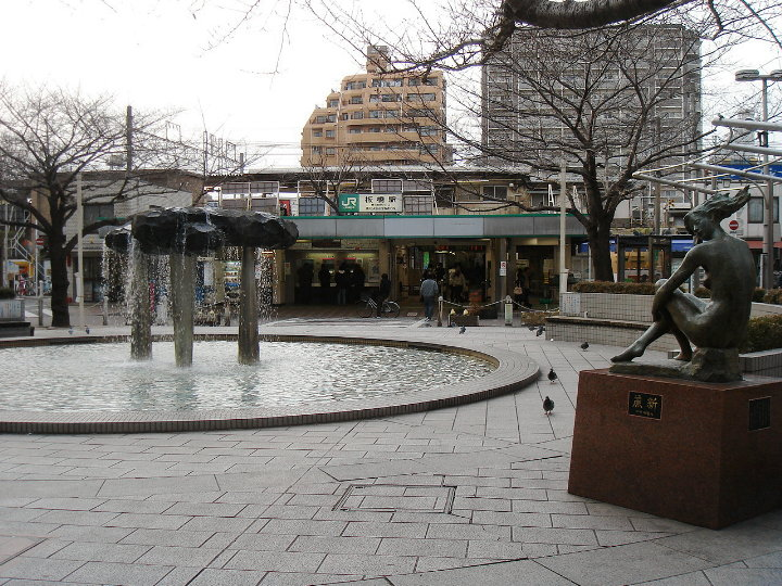 East exit (Takinokawa exit) of Itabashi Station on the Saikyo Line in Tokyo